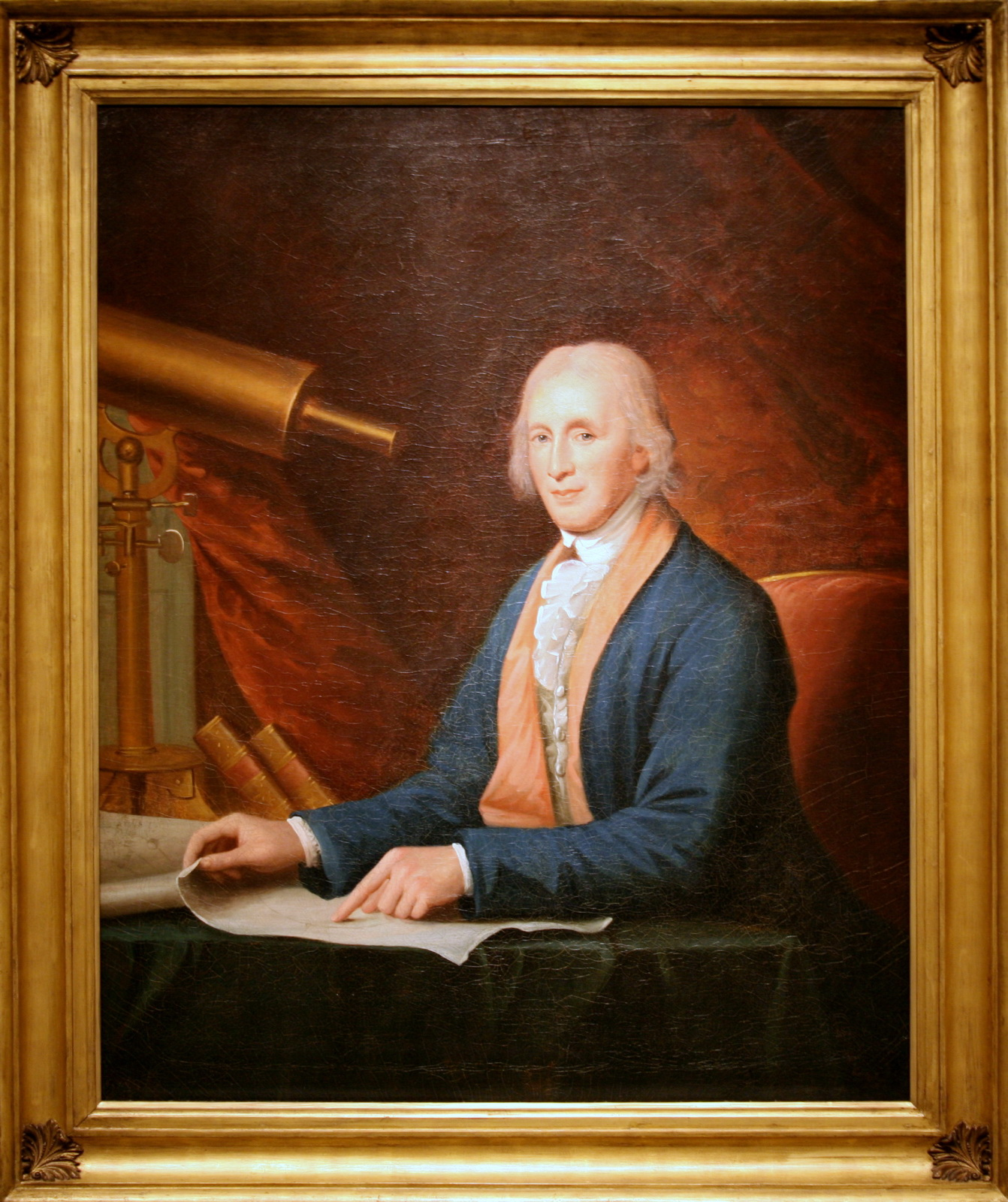 David Rittenhouse was a renowned American astronomer, inventor, mathematician, surveyor, scientific instrument craftsman, and public official.